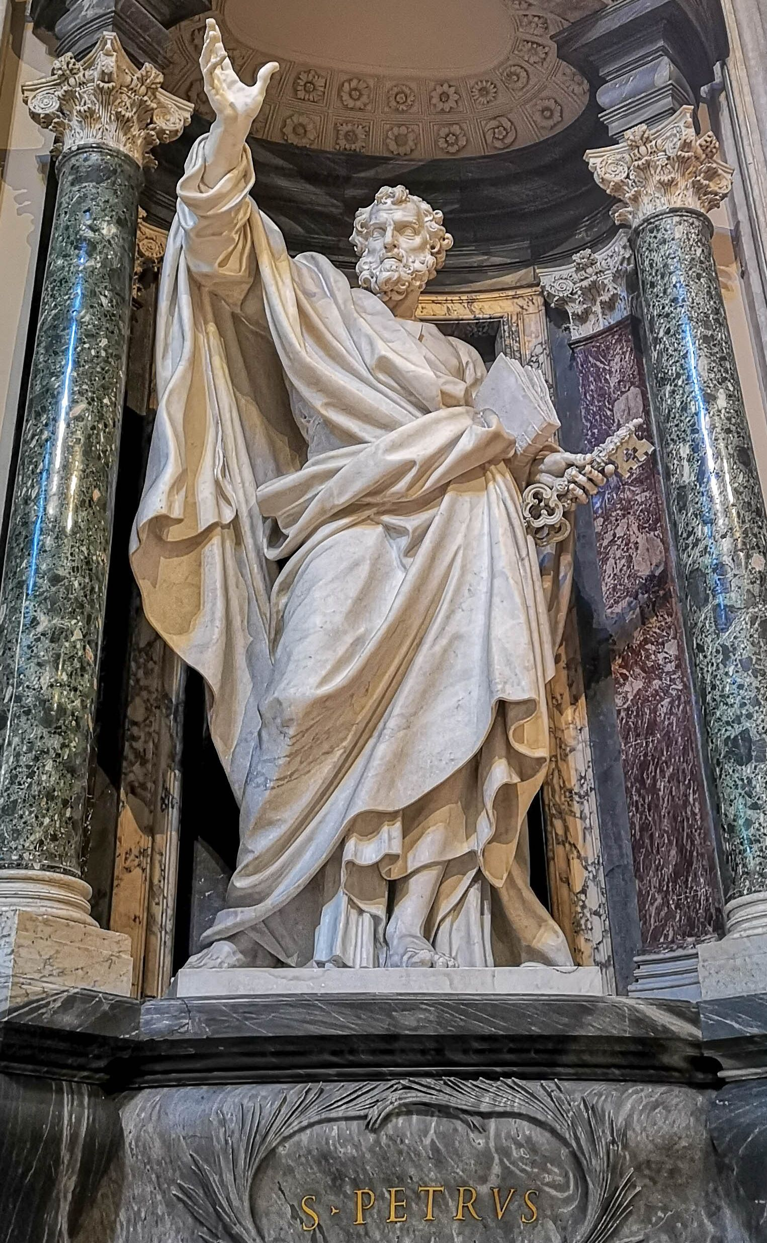 Baroque statues in San Giovanni in Laterano